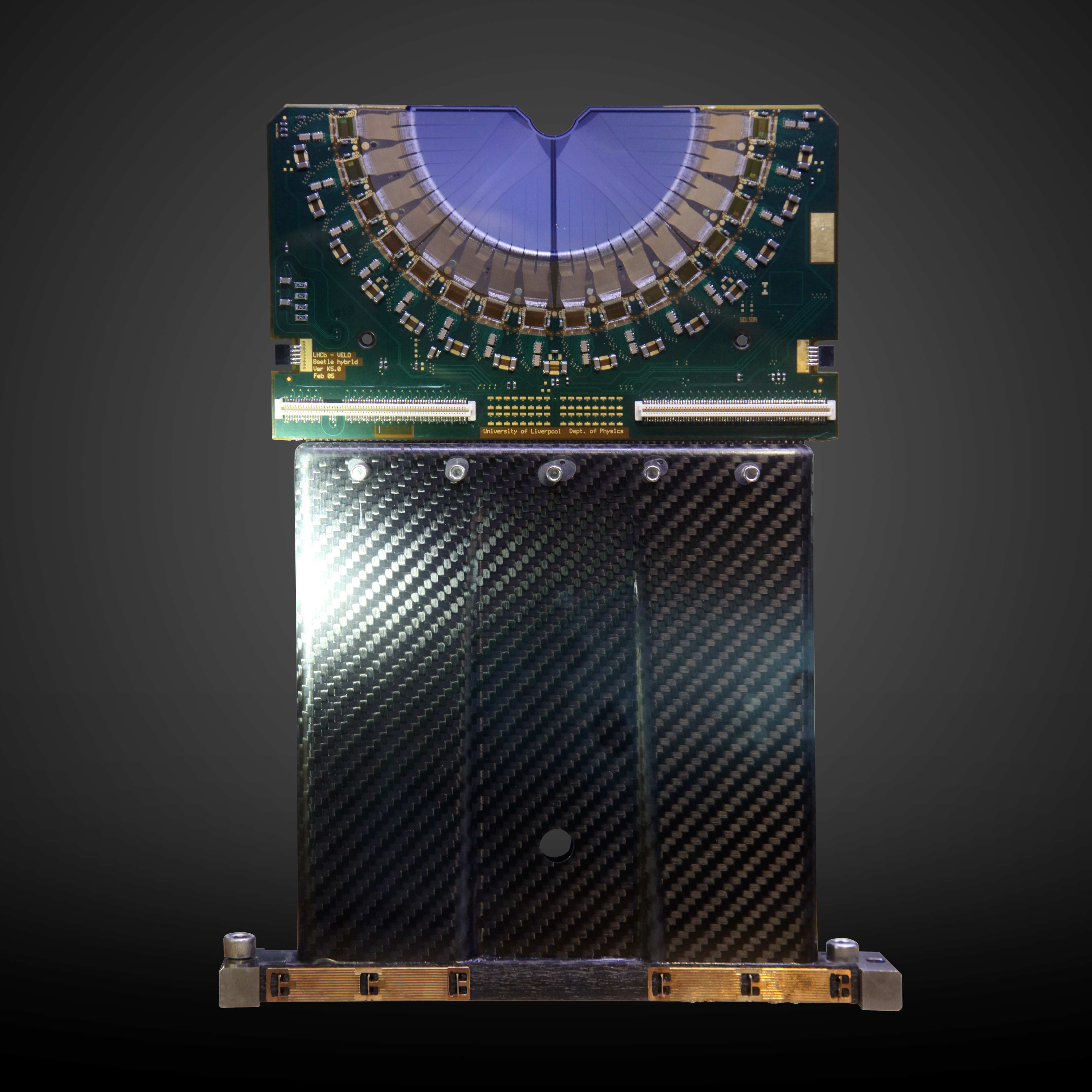 Elements of the Vertex Locator (VELO) detector of LHCb, on display at the Microcosm exhibition at CERN